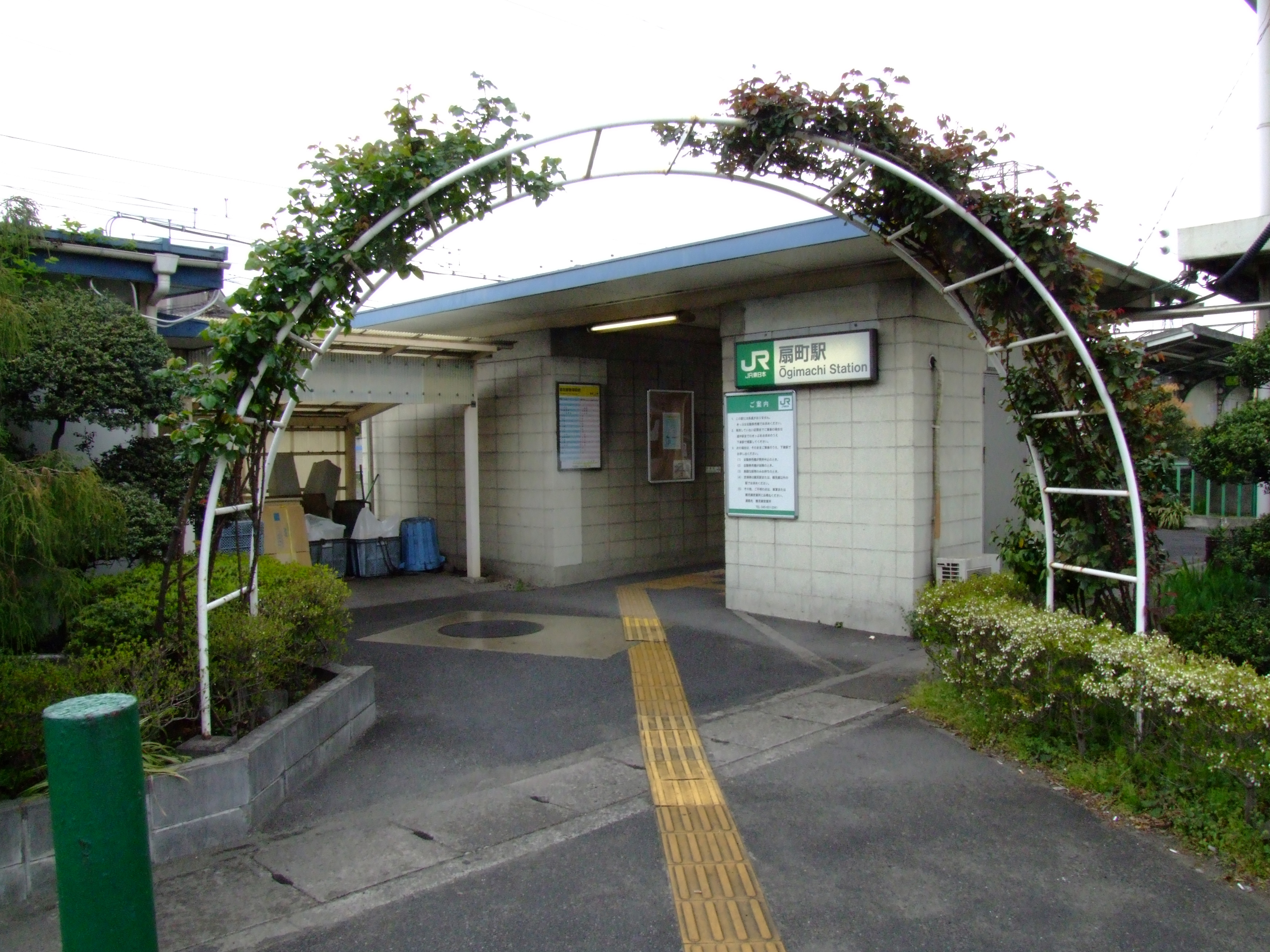 Ogimachi Station